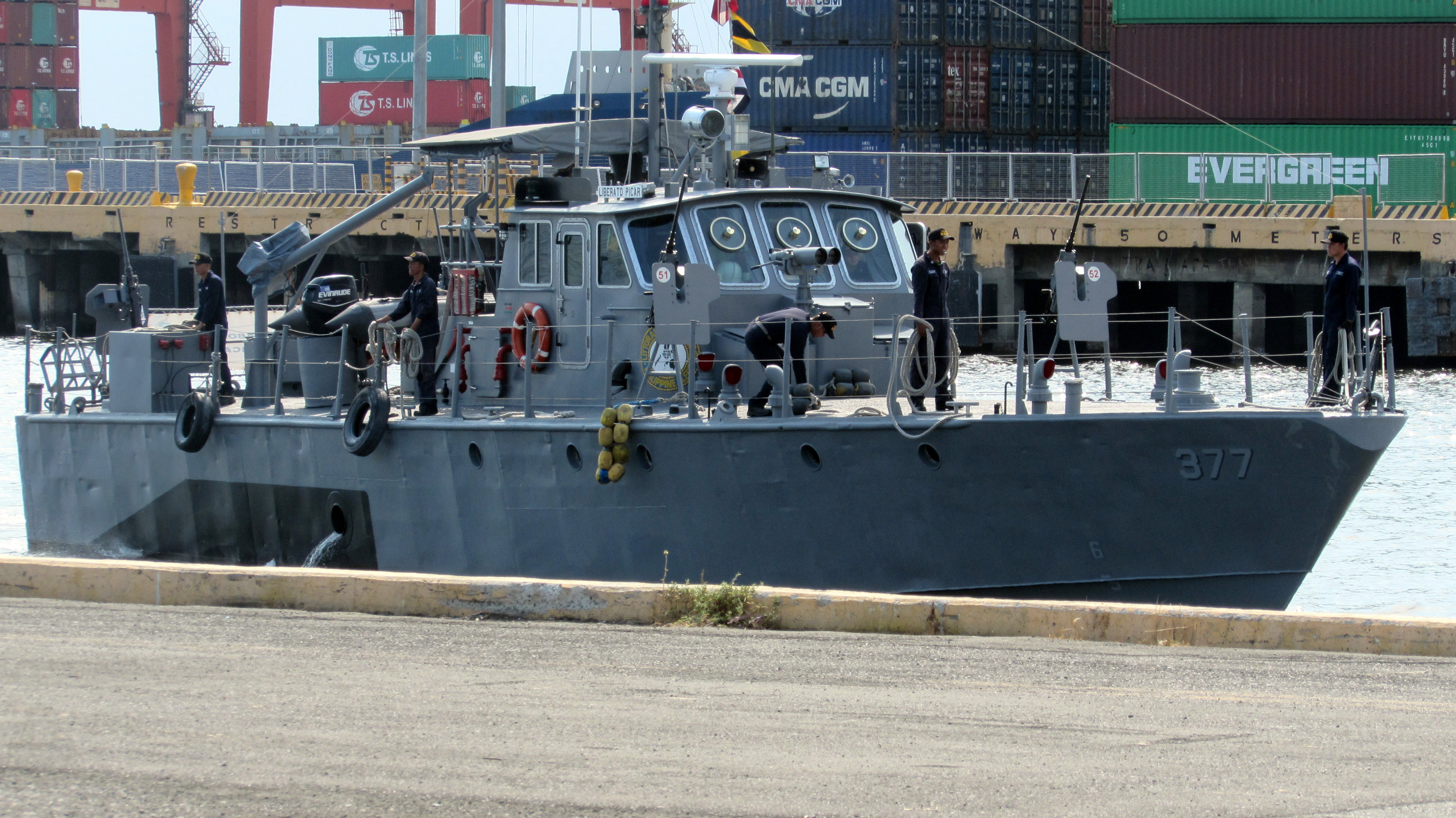 The PG-377 BRP Liberato Picar, an Andrada-class Patrol Boat of the Philippine Navy. Photo taken at Pier 13 of the Manila South Harbor.